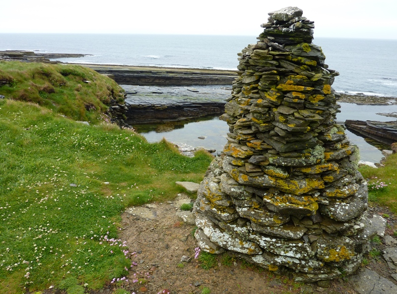 Crosskirk Broch Memorial Cairn, Highland, Scotland